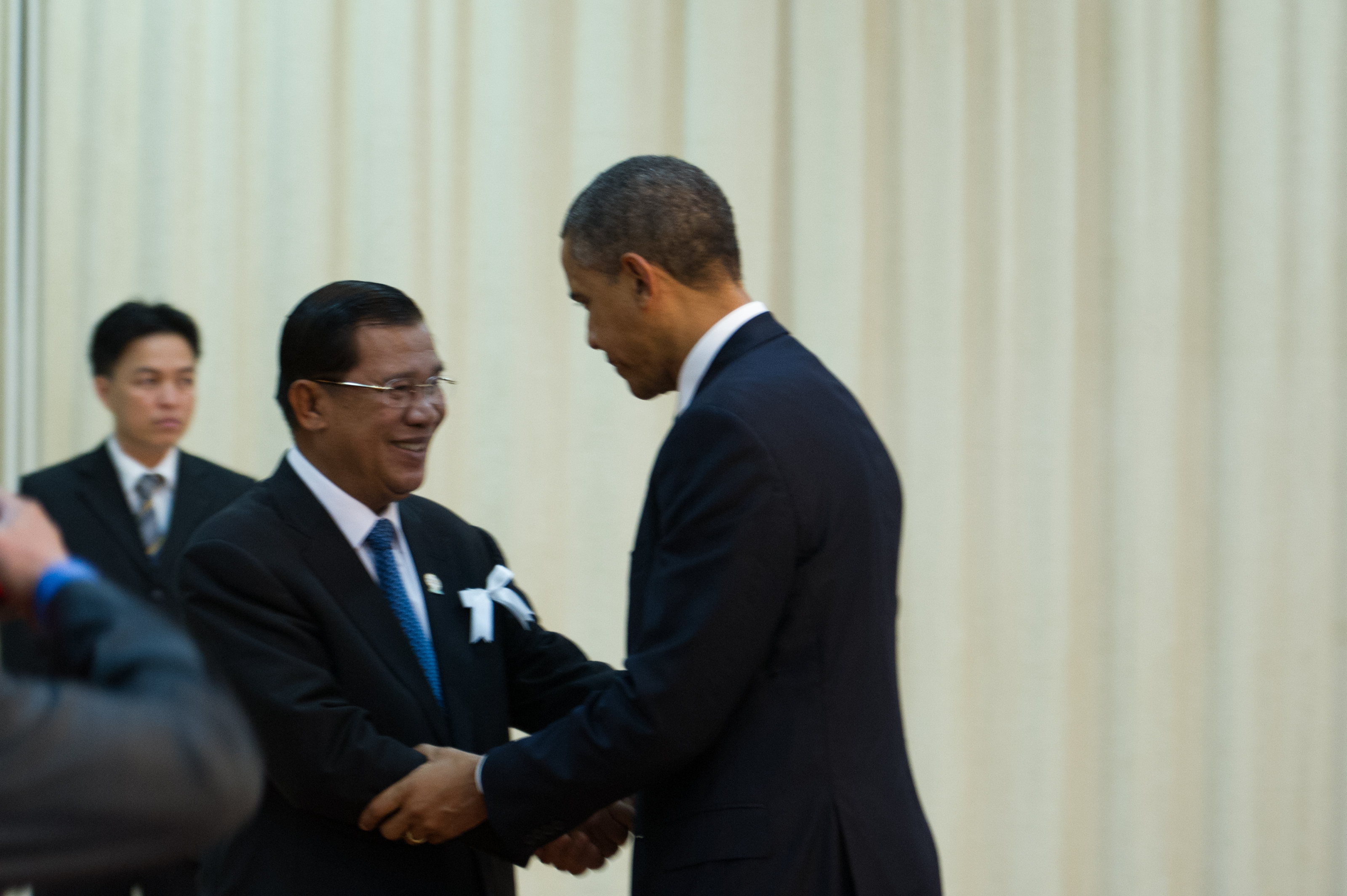 PHNOM PENH, Cambodia (November 19, 2012) U.S. President Barack Obama greets Cambodia's Prime Minister Hun Sen at the Peace Palace. President Obama is the first U.S. President to visit Cambodia.